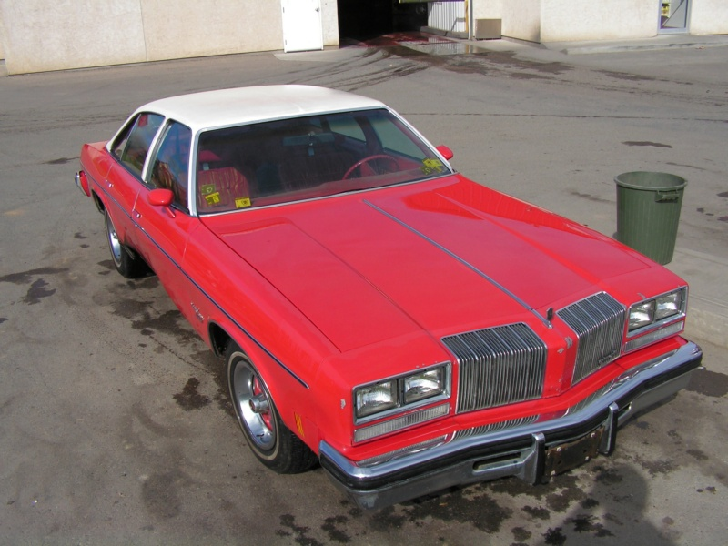 Picture of my own 1977 Cutlass Supreme Brougham. Releasing to public domain